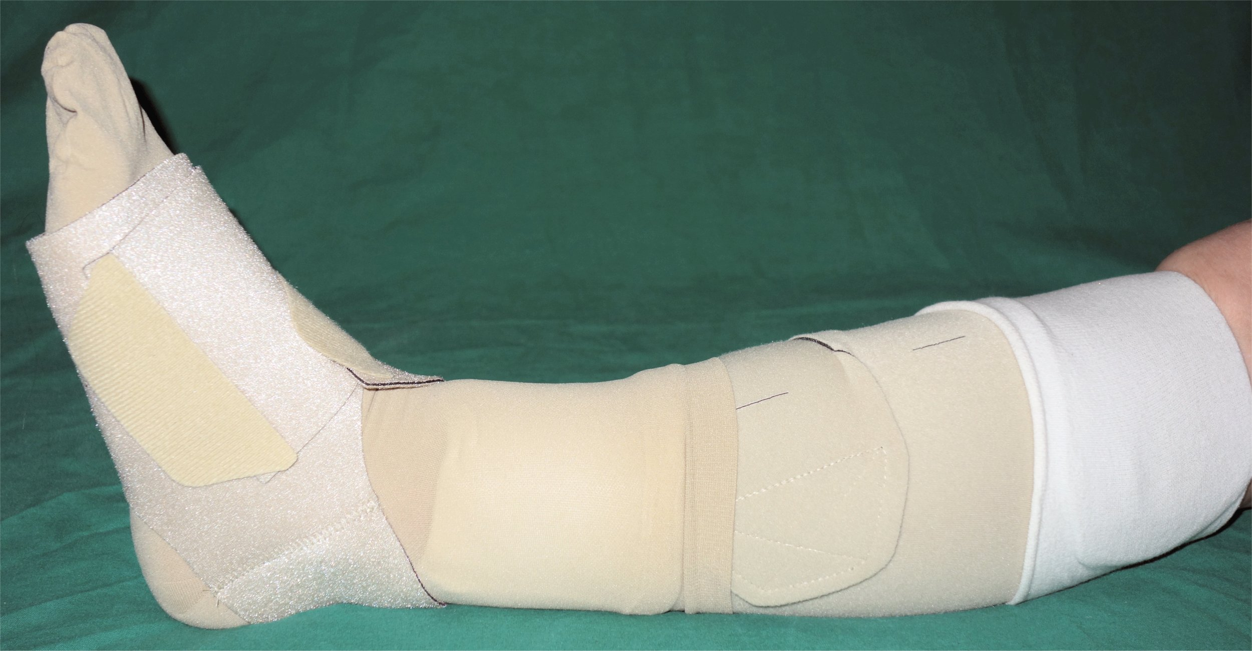 Velcro bandage with pac-band for foot and ankle. For compression therapy, indicated for Lymphedema, Chronic venous insuffiency and Post thrombotic syndrome